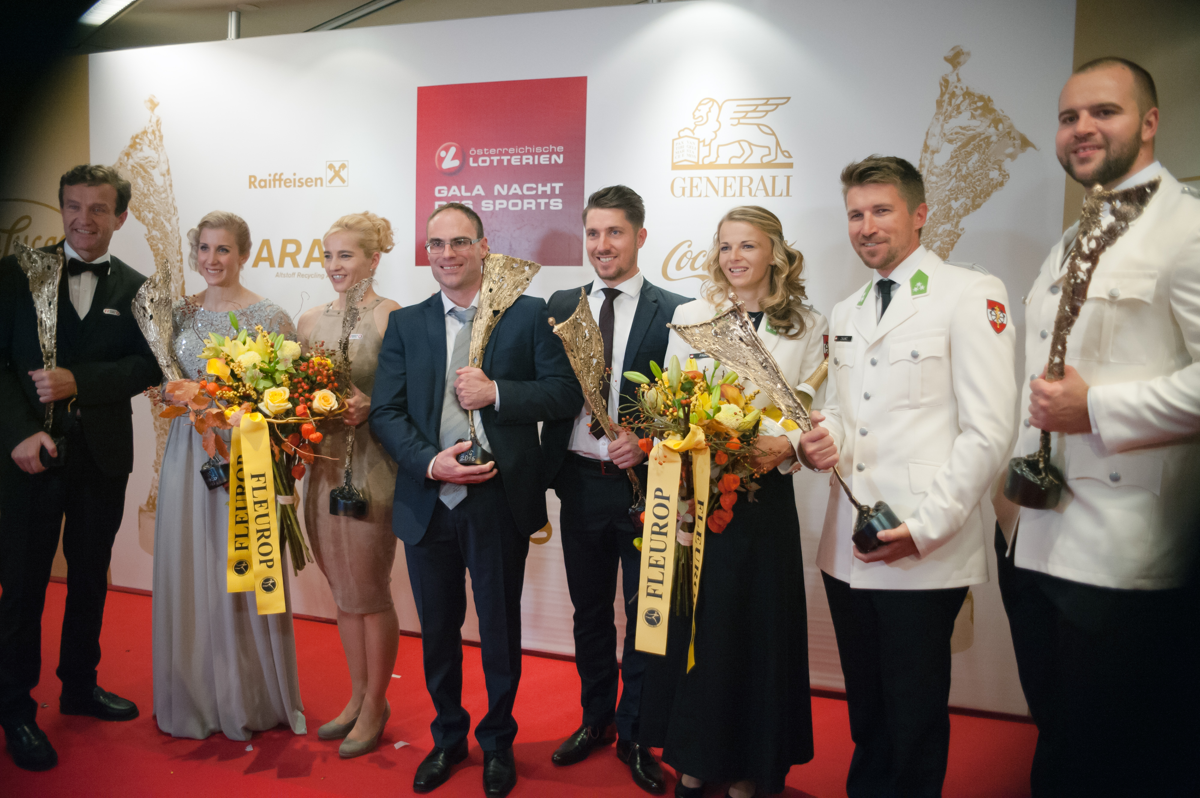 The Austrian Sportspersonalities of the Year 2016 (Austria Center Vienna).